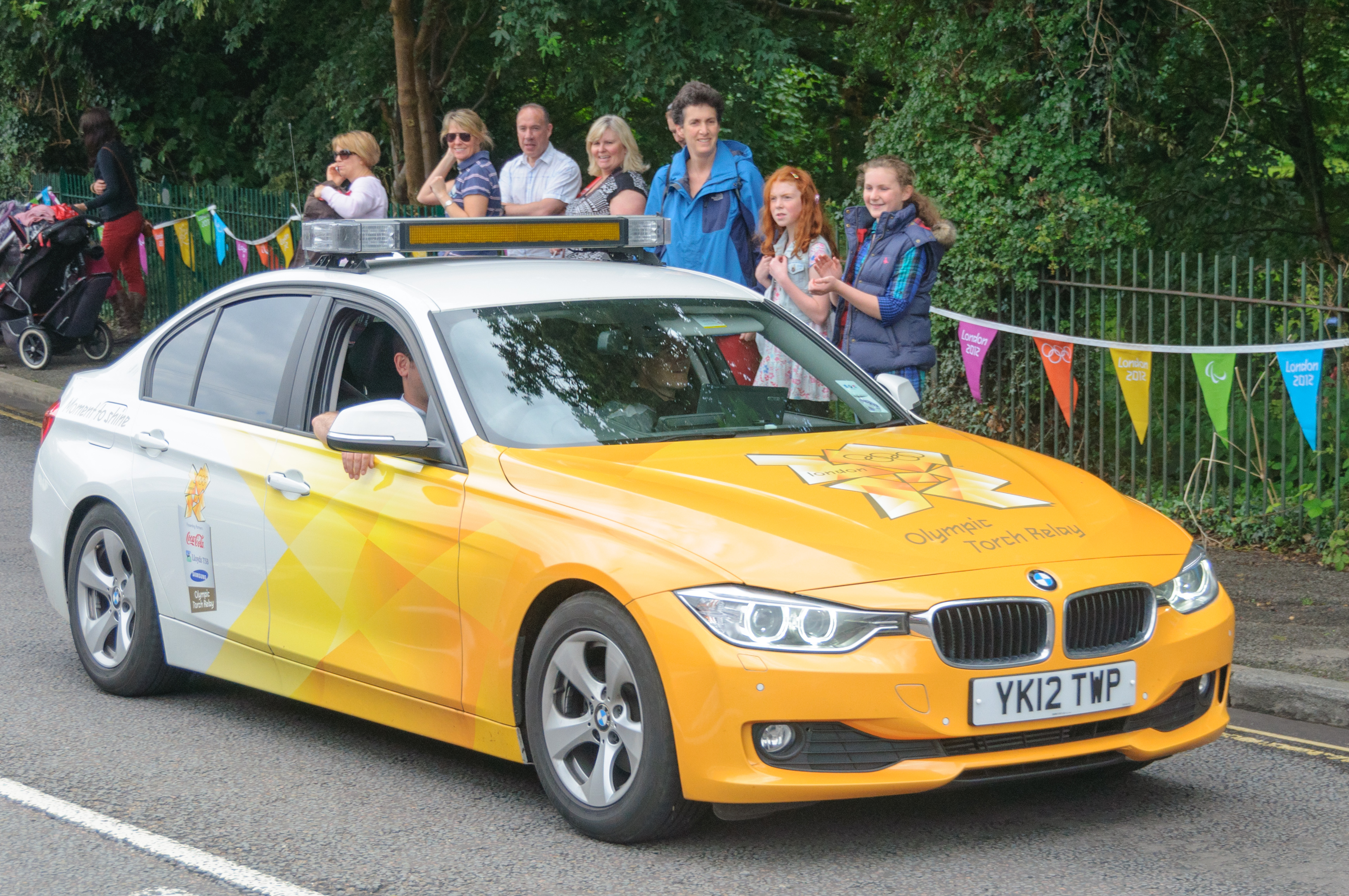 Olympic Torch Relay, St Albans